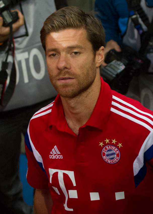 Xabi Alonso with Bayern Munich in August 2014.